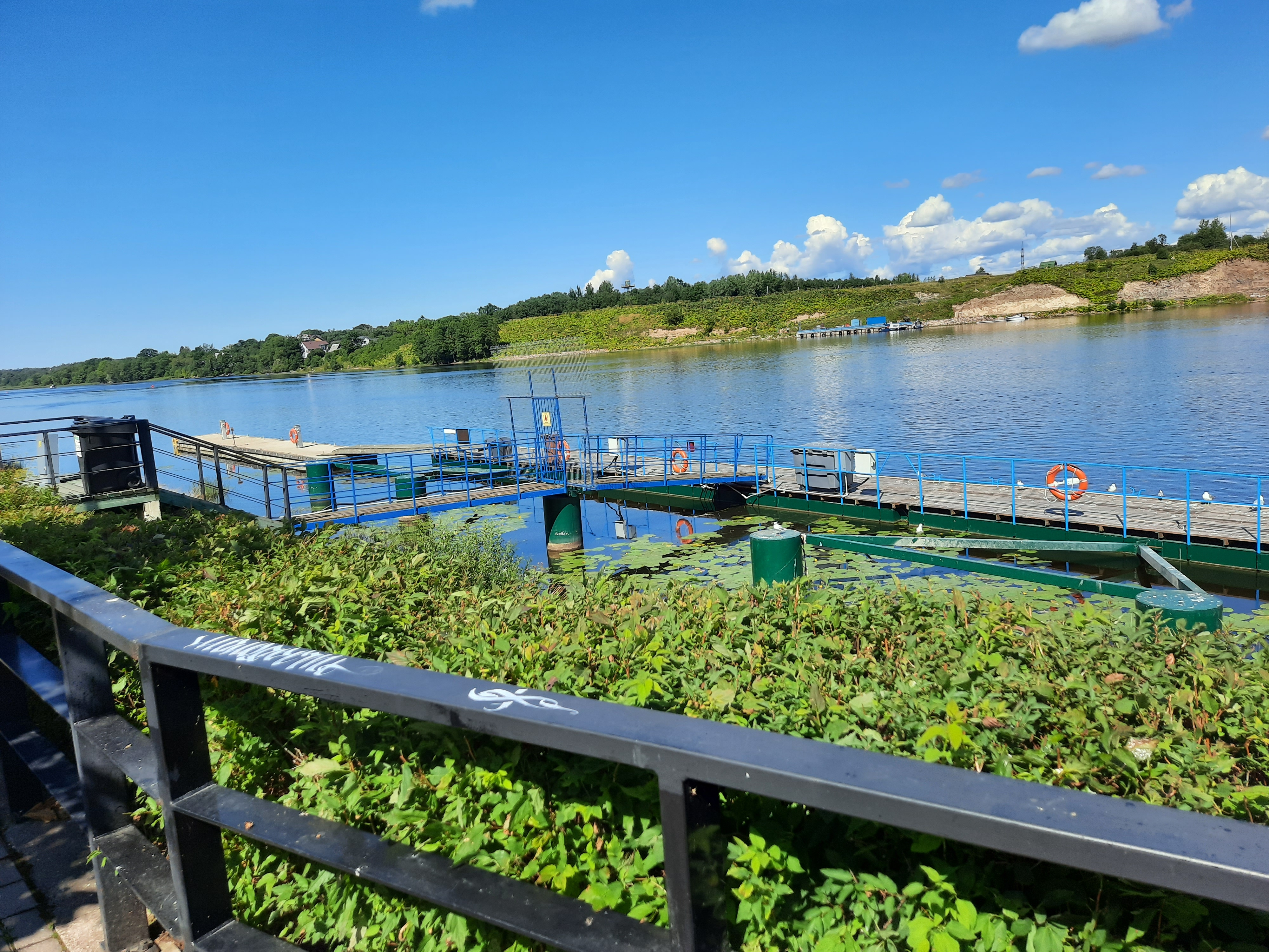 Narva Harbour